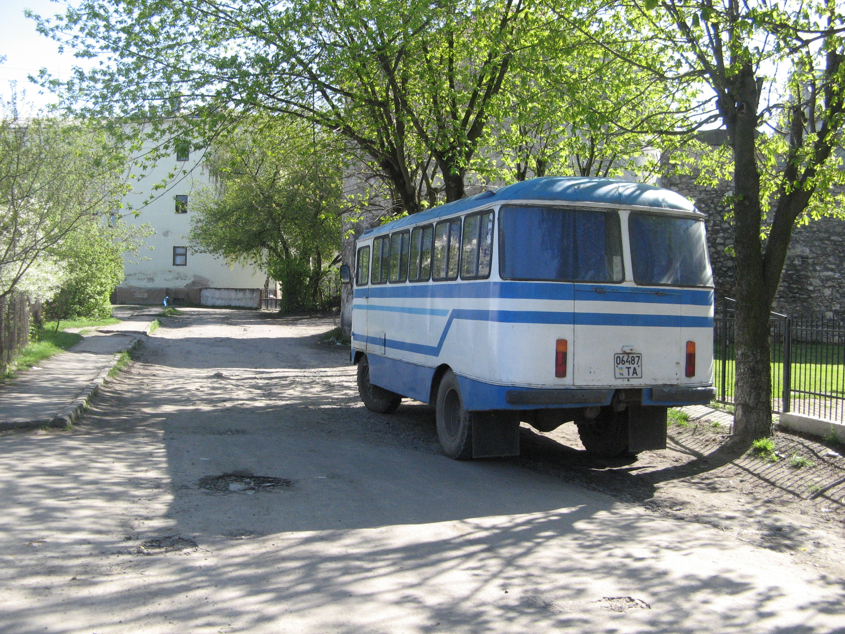 Bus ASCh-03 "Chernigov" in Zhovkva, Ukraine.